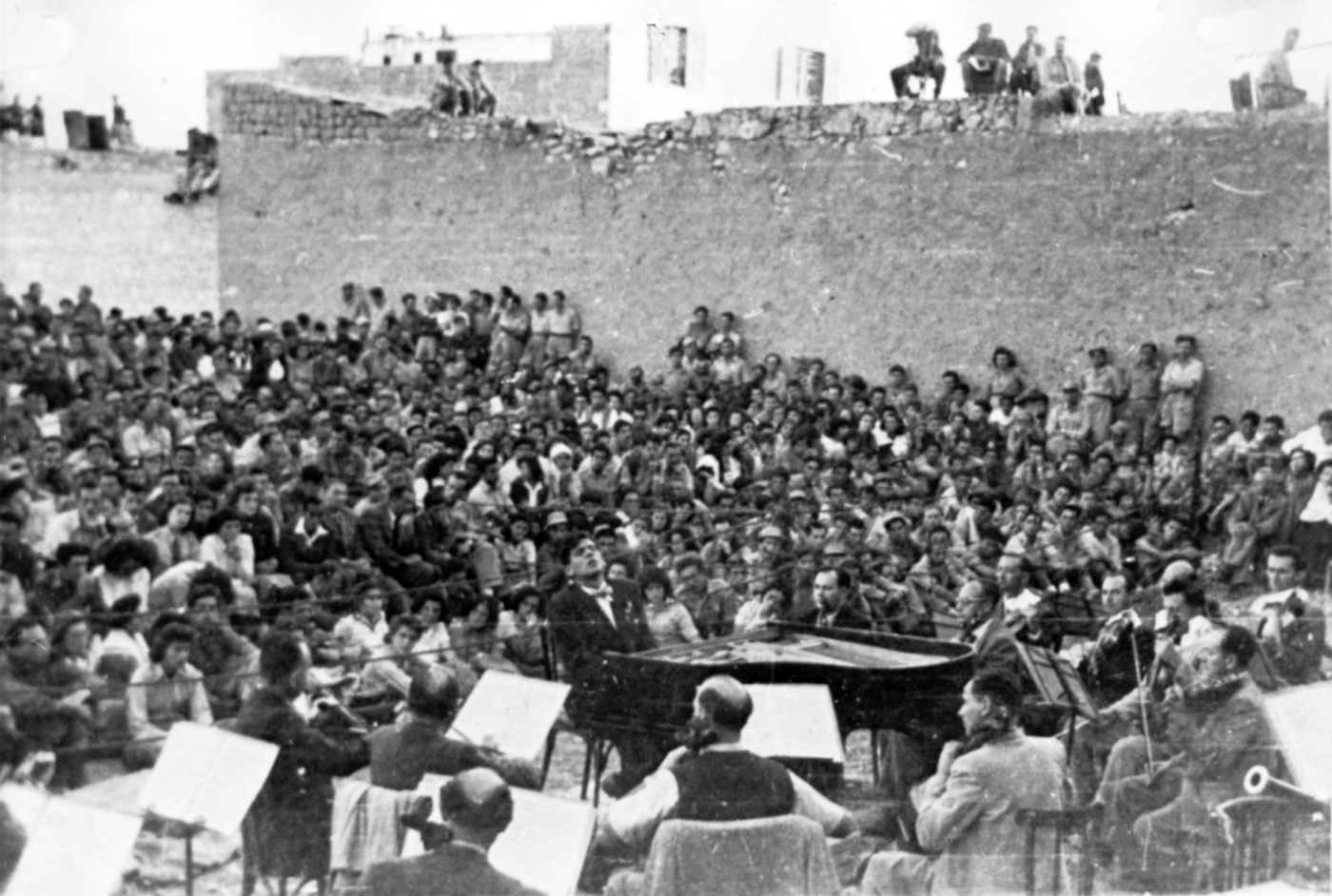 Israel Philharmonic Orchestra performing in Beersheba, Israel, 1948. Bernstein playing Beethoven's 1st Piano Concerto with the Israel Philharmonic Orchestra at a concert for the armed forces during the Israeli War of Independence. Beersheba, November 1948. Photographer unidentified.